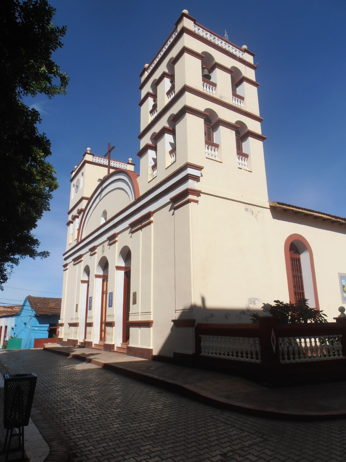 Baracoa: Catedral Nuestra Señora de la Asunción